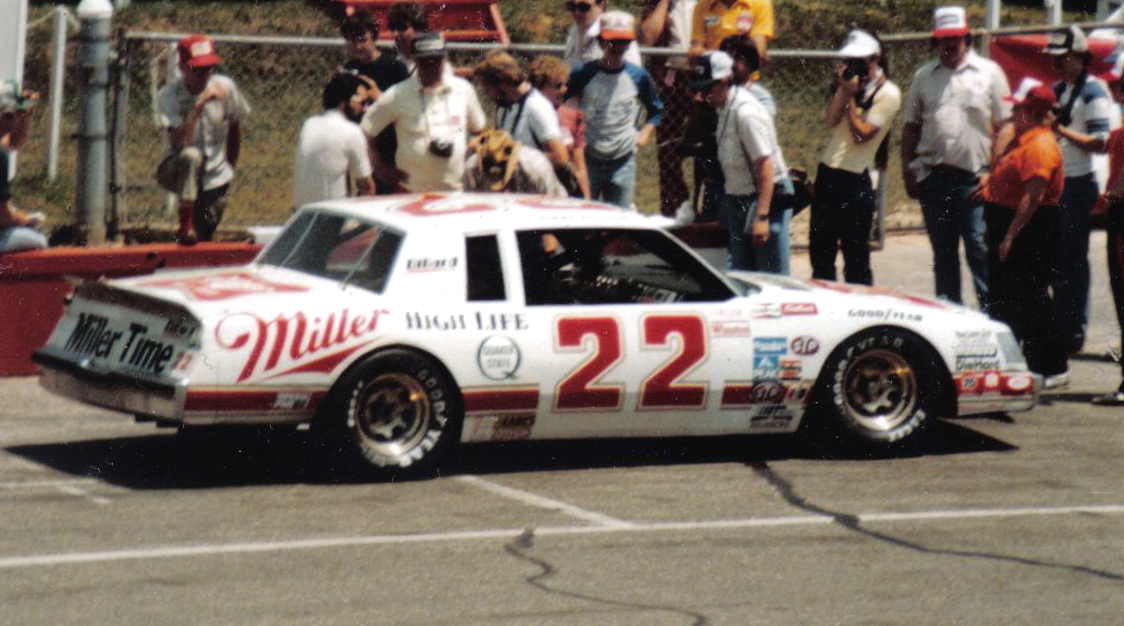 The Digard owned Miller High Life Buick of Bobby Allison at the 1983 Van Scoy 500. Allison went on to win this race and the season championship.